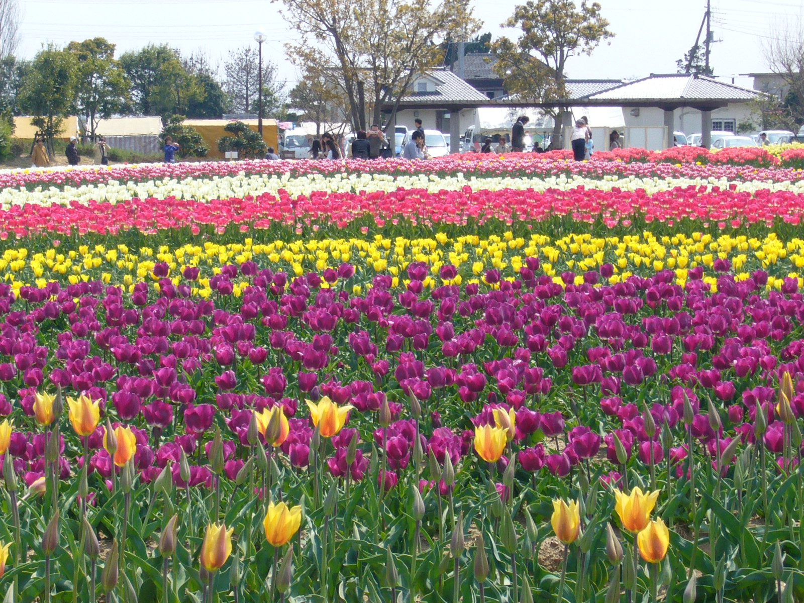 wada-park,tulip festival,inashiki-city,japan